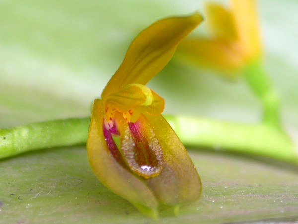 Photos by Americo Docha Neto & Dalton Holland Baptista for Orchidstudium